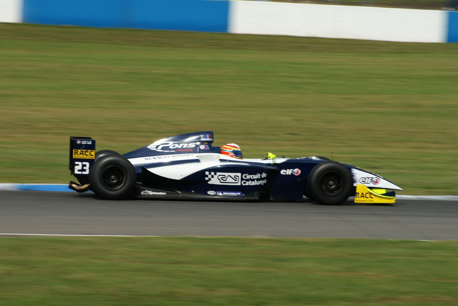 Miguel Molina driving for Pons Racing in the 2007 World Series by Renault season at Donington Park.